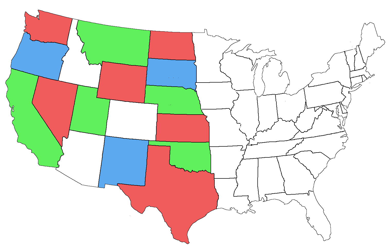 A trichrome map colouring game on a map of the United States.